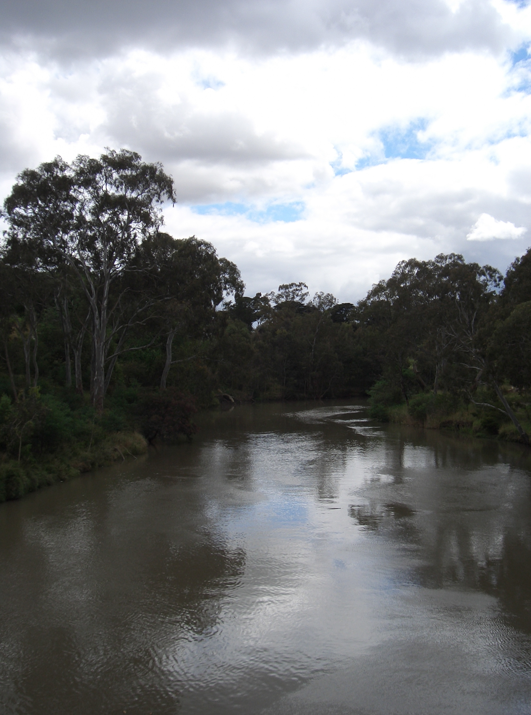 The Yarra River, in Melbourne, Australia, as seen from Kanes Bridge. Very near to the Yarra River Trail (for cyclists).